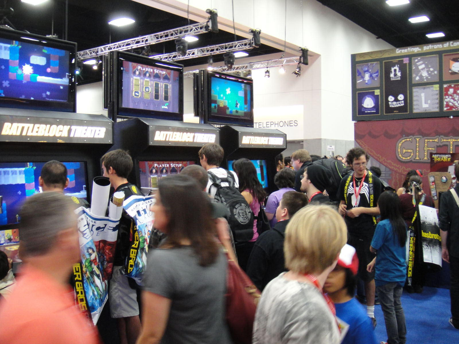 San Diego Comic-Con 2011 - the Behemoth booth